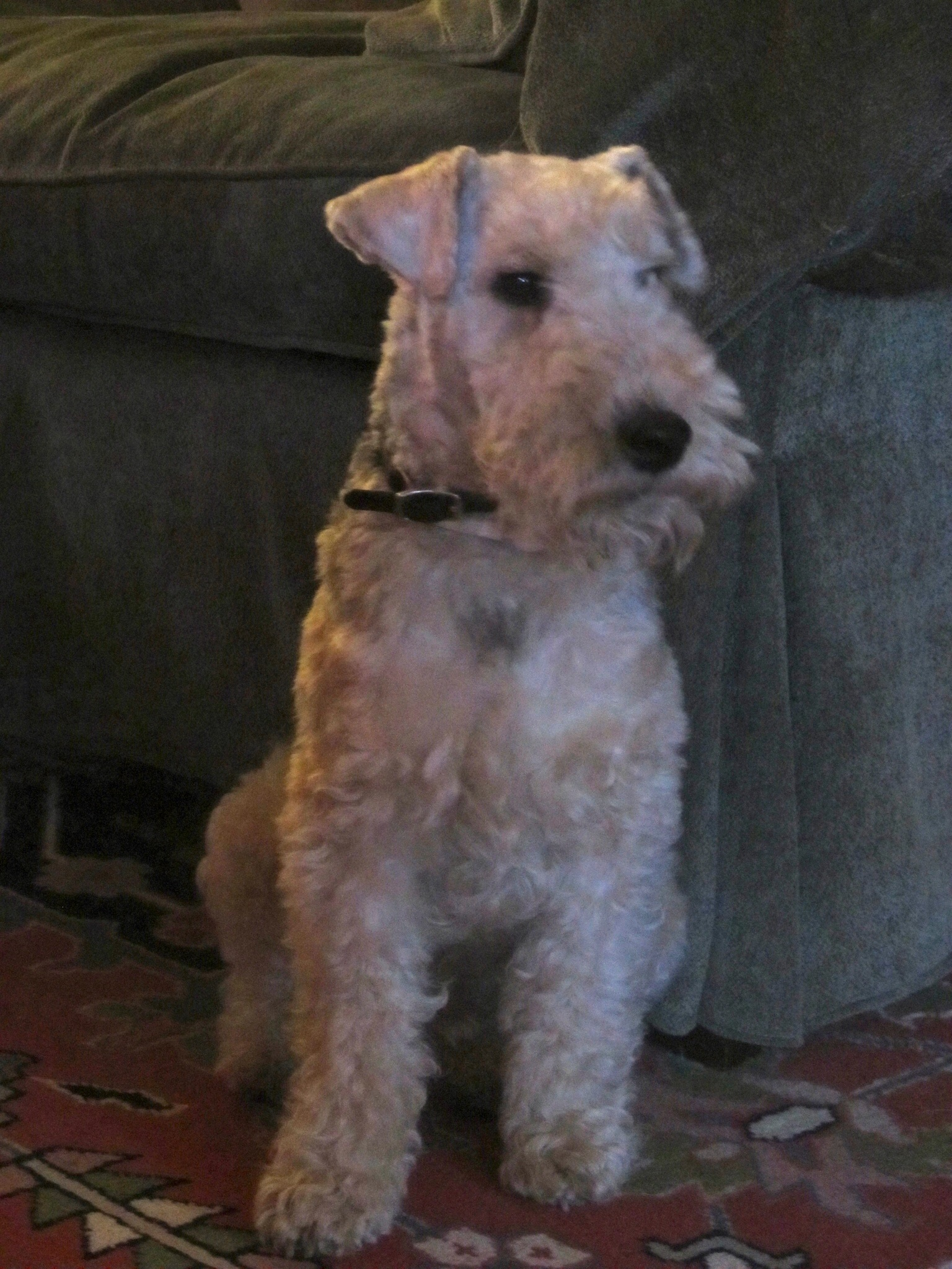 Virginia Purebred - Hollybriar Natural High